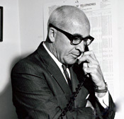 Teno Roncalio, US Representative from Wyoming